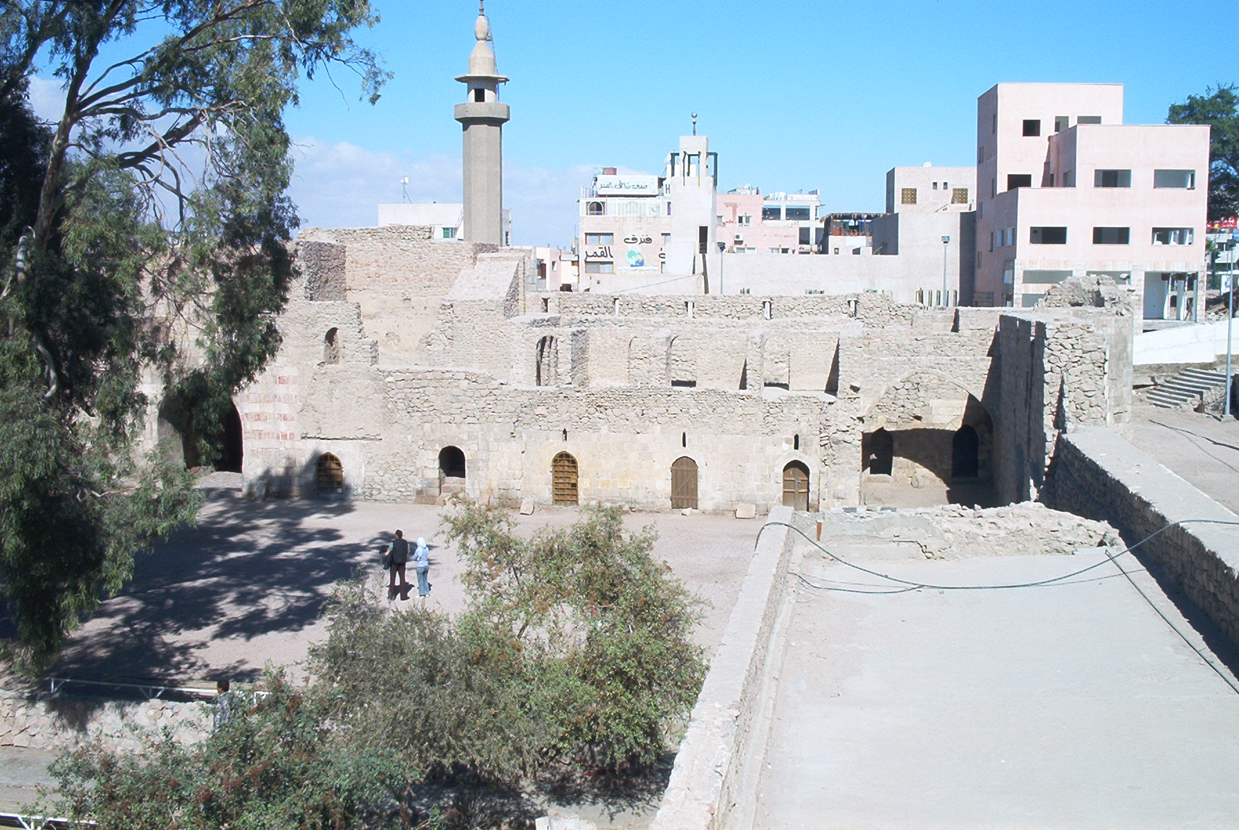 Tha Aqaba Fortress 2006